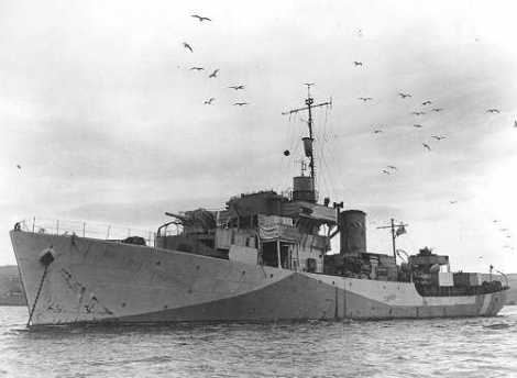 Revised Flower-class corvette HMCS Long Branch